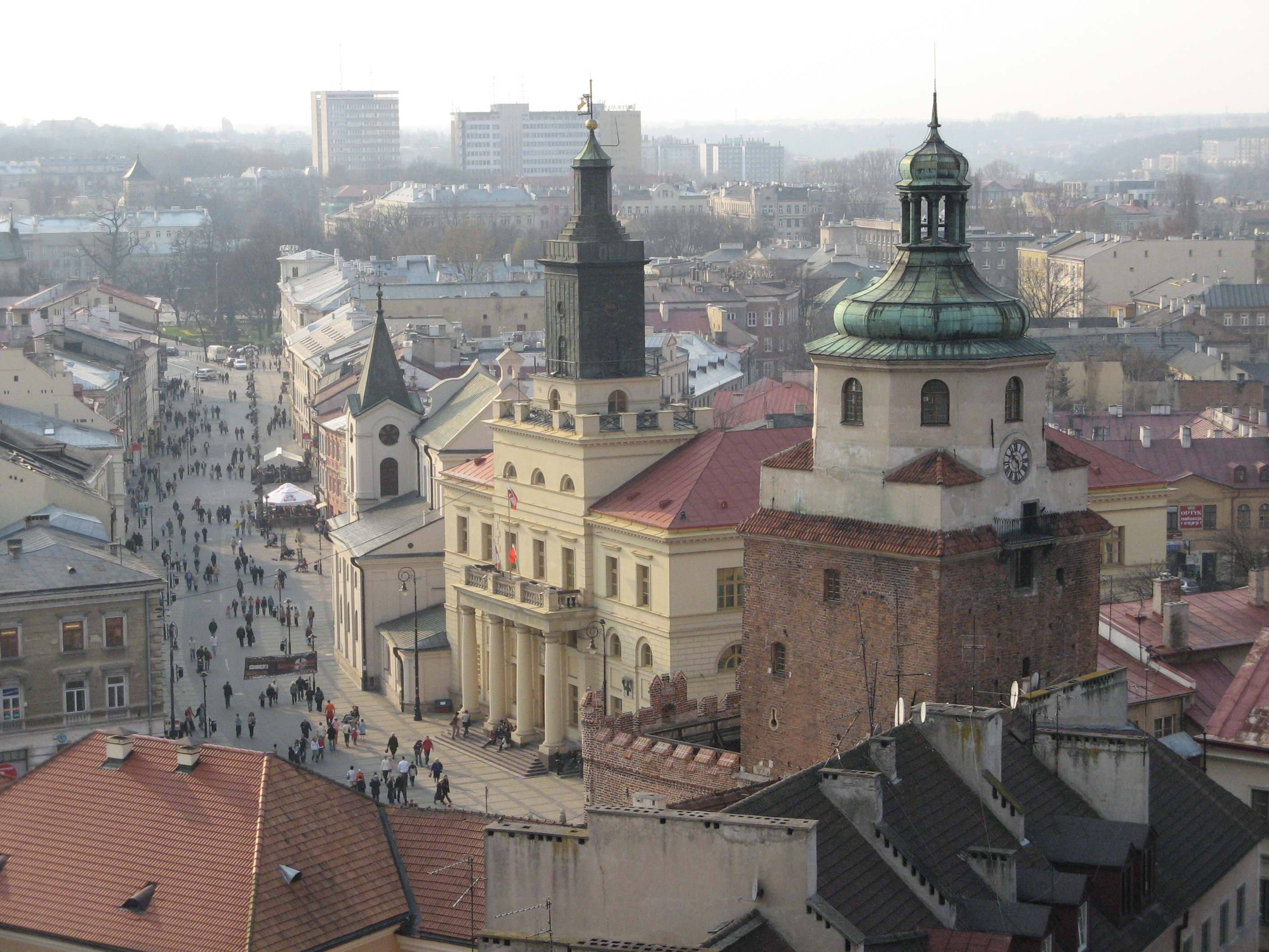 Lublin - Krakowska Gate, New Town Hall and Krakowskie Przedmieście Street